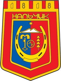 Nalchik, coat of arms